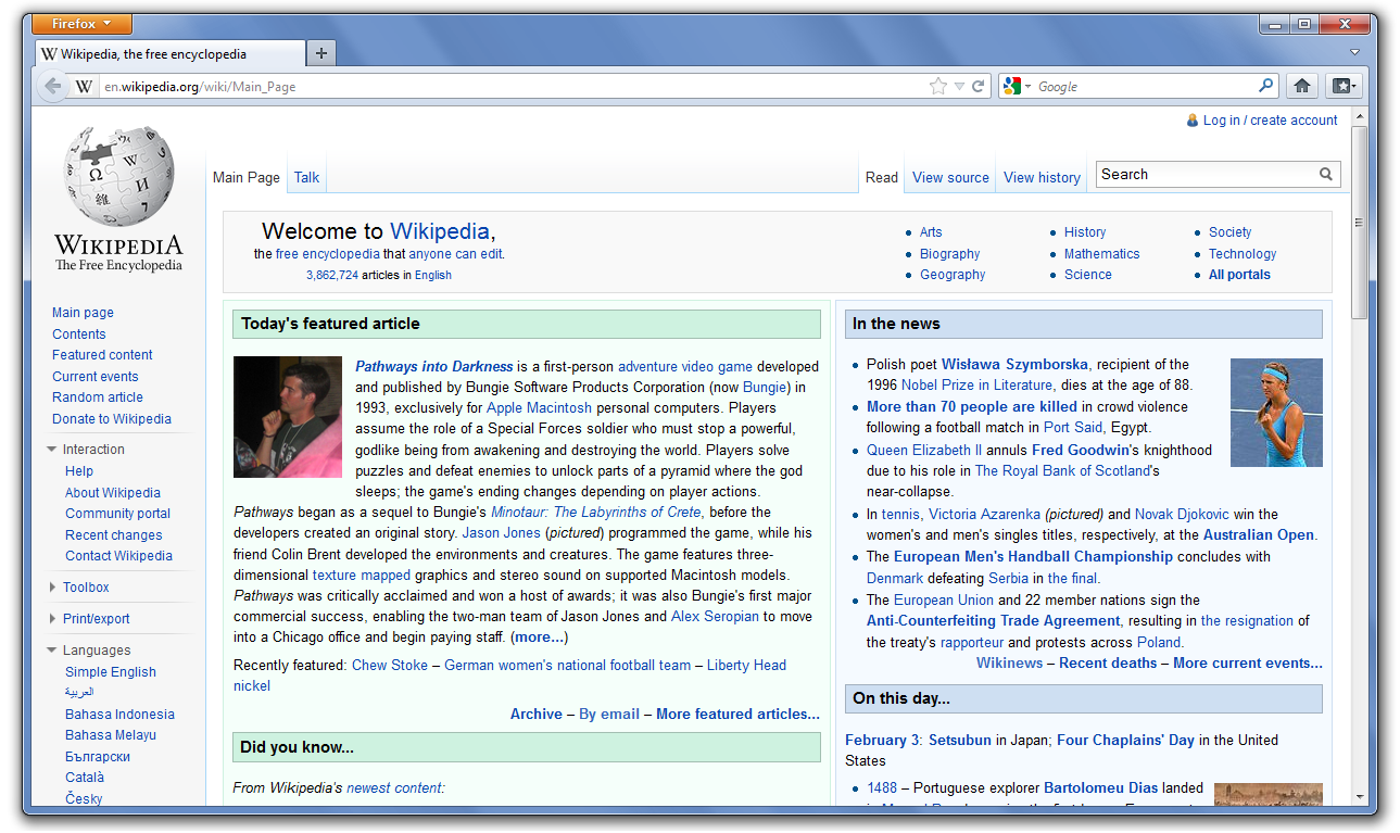 Firefox 10 running on Windows 7